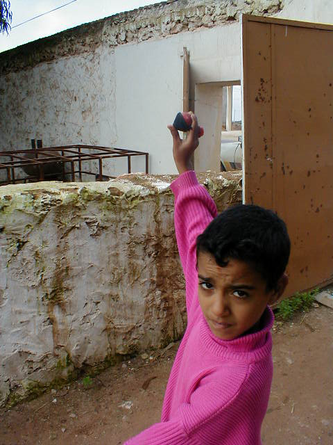 launching of the spinning top Walon: hinaedje del tourpene (portrait saetchî pa L. Mahin).